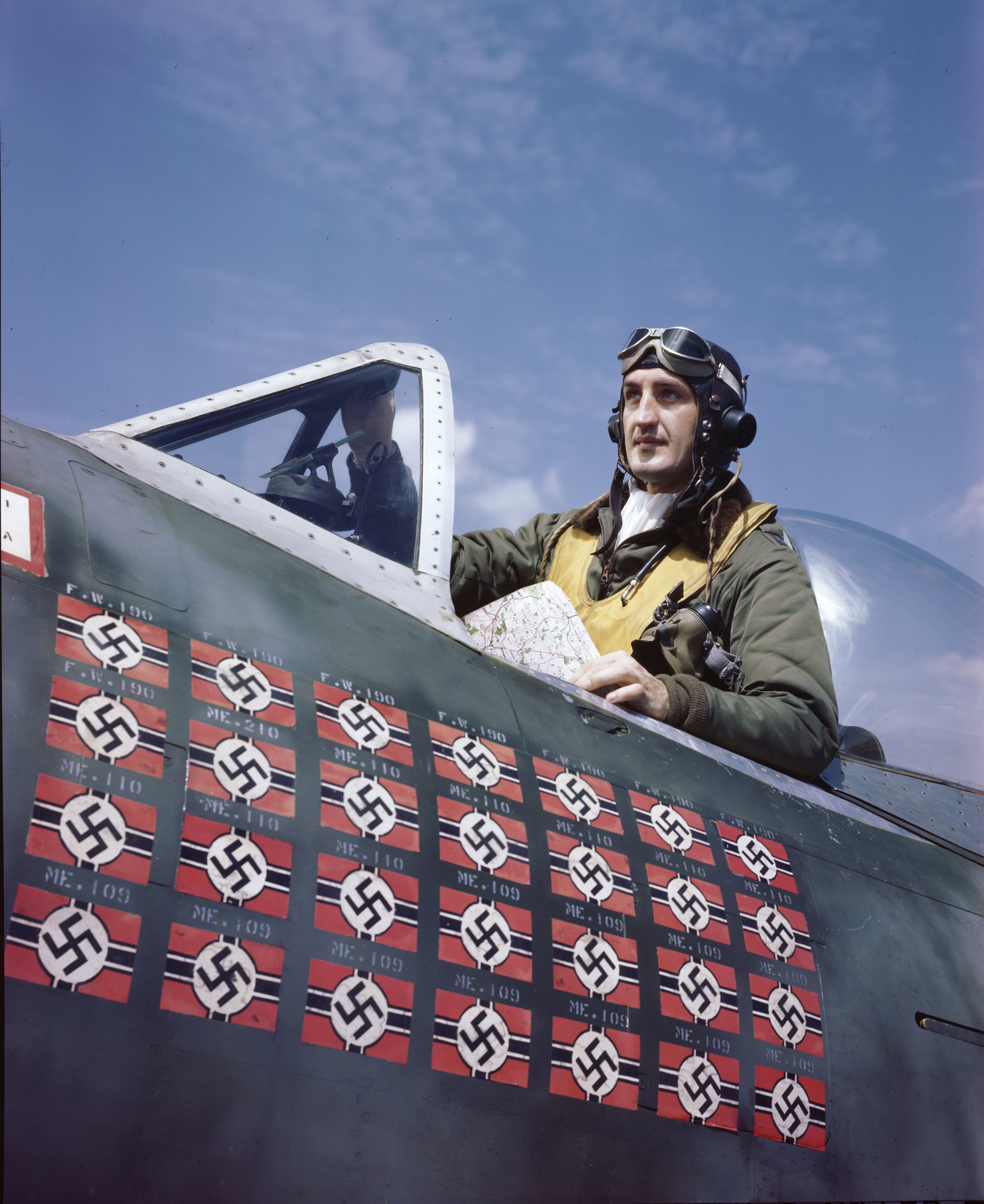 USAAF fighter ace Francis S. Gabreski in cockpit of his P-47 Thunderbolt. Photograph from July 1944 as shown by the 28 victory markings - Gabreski scored his 28th kill on 5 July and was captured on 20 July.